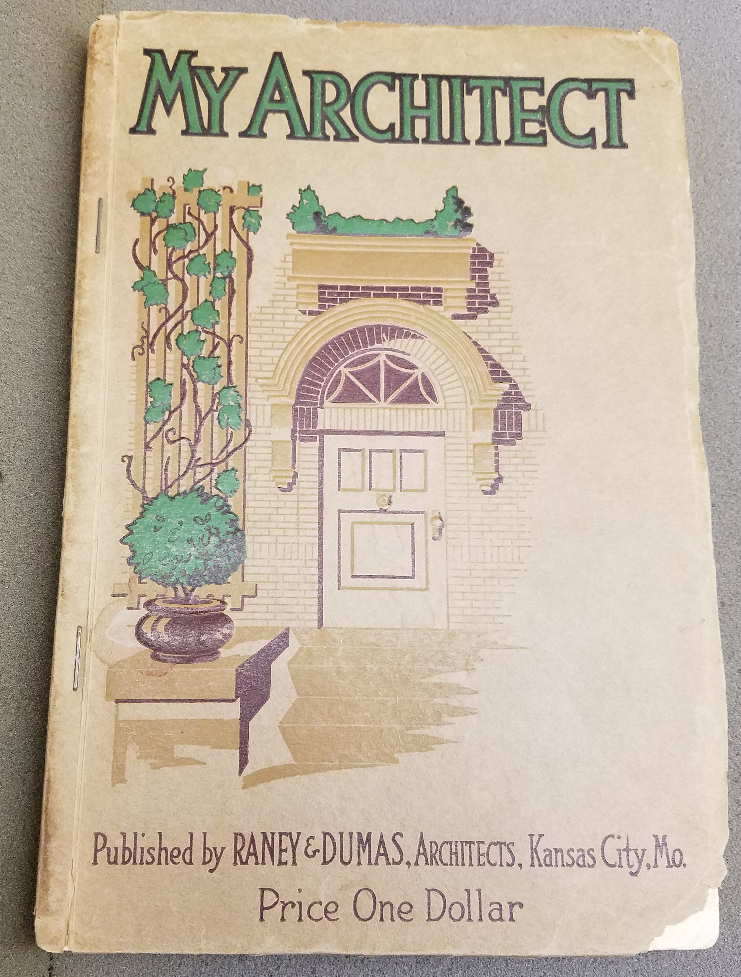 The cover of My Architect by Raney & Dumas, Kansas City, Mo, Published in 1915. [Robert James Raney]